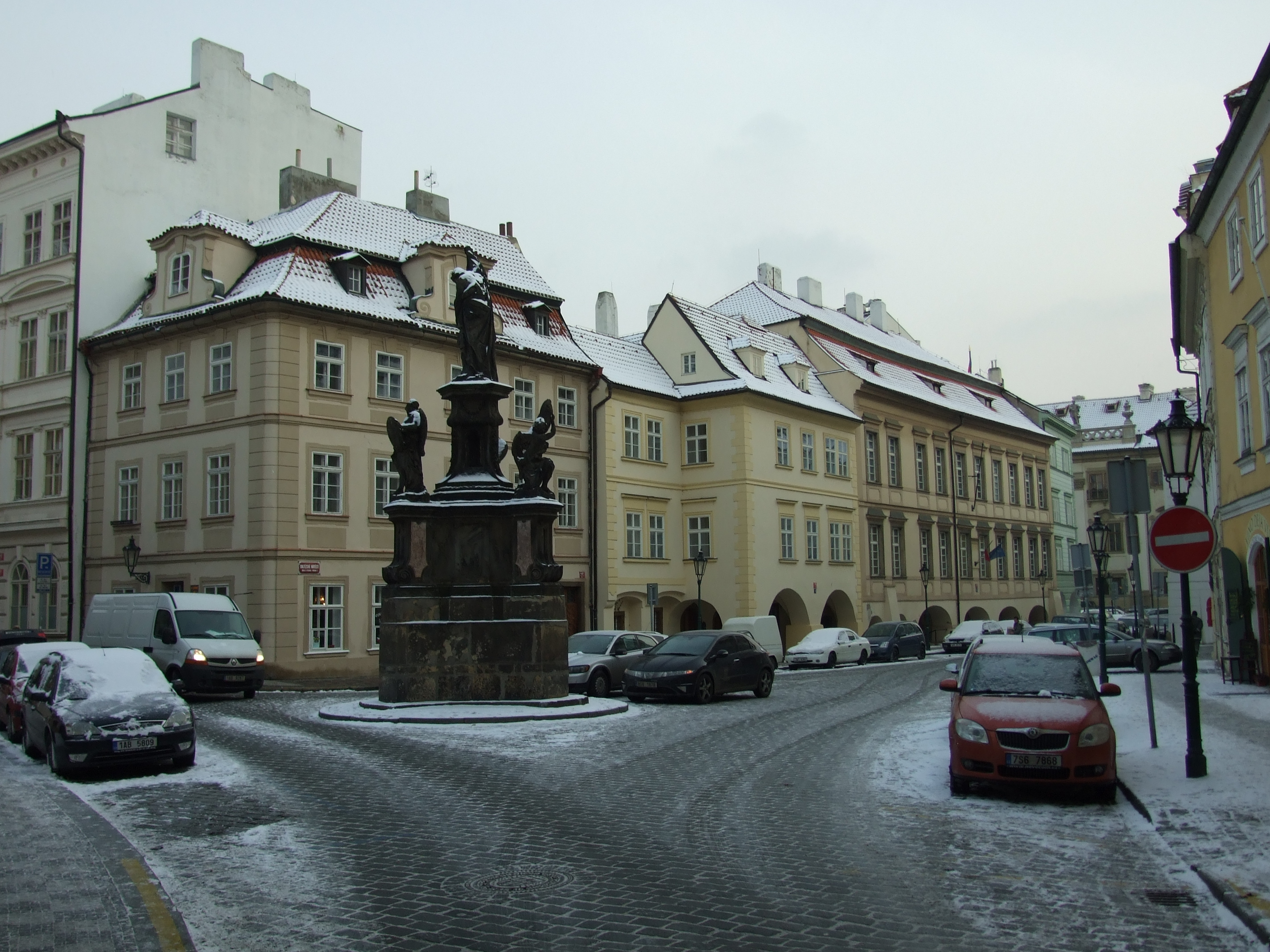 Maltézské náměstí square in Prague-Malá Strana, Prague, CZhelp